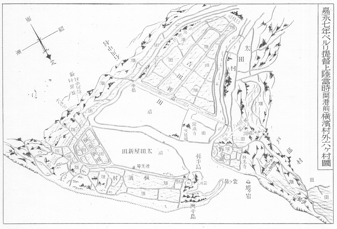 Yokohama map in 1854